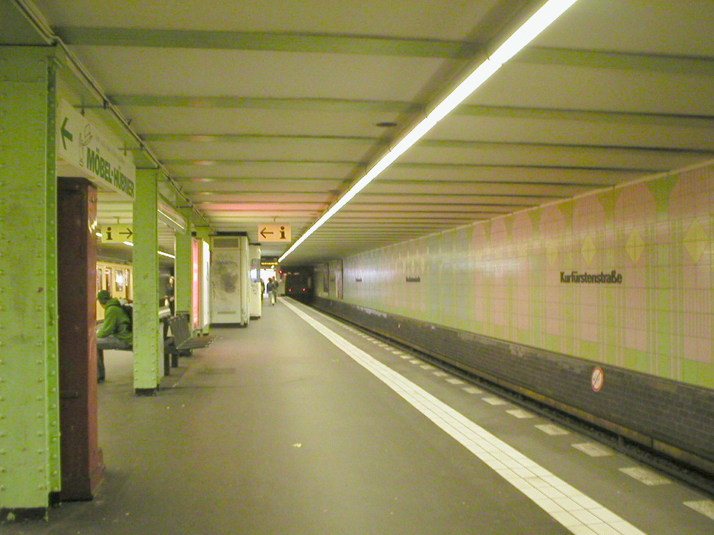 the Berlin U-Bahn station Kurfürstenstraße, line U1